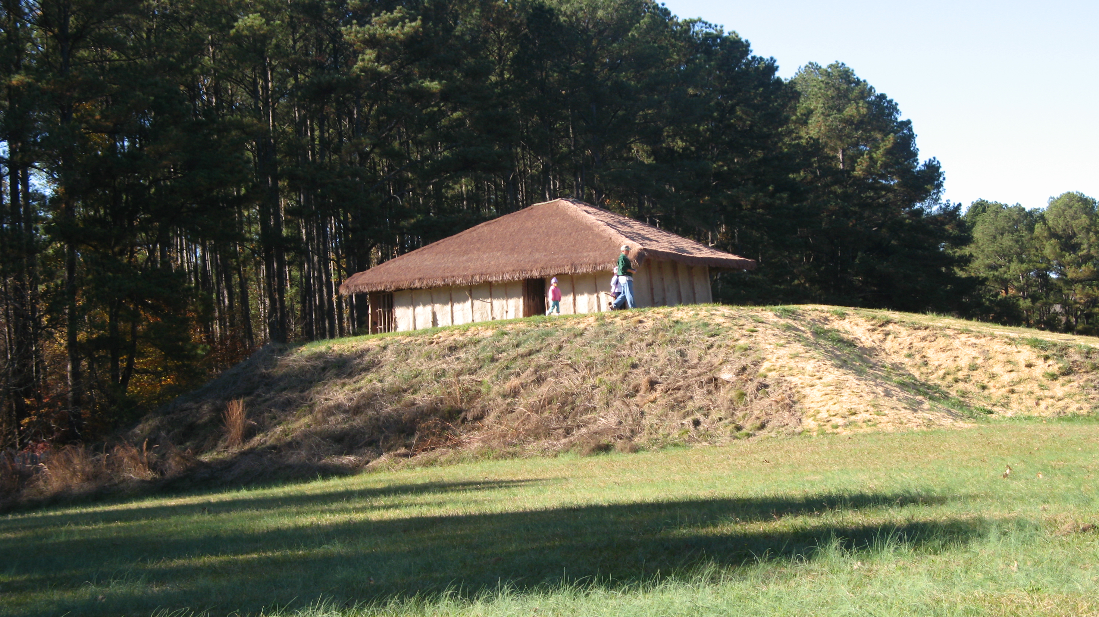 Town Creek Indian Mound, a ceremonial mound built by the Pee Dee. North Carolina, USA.